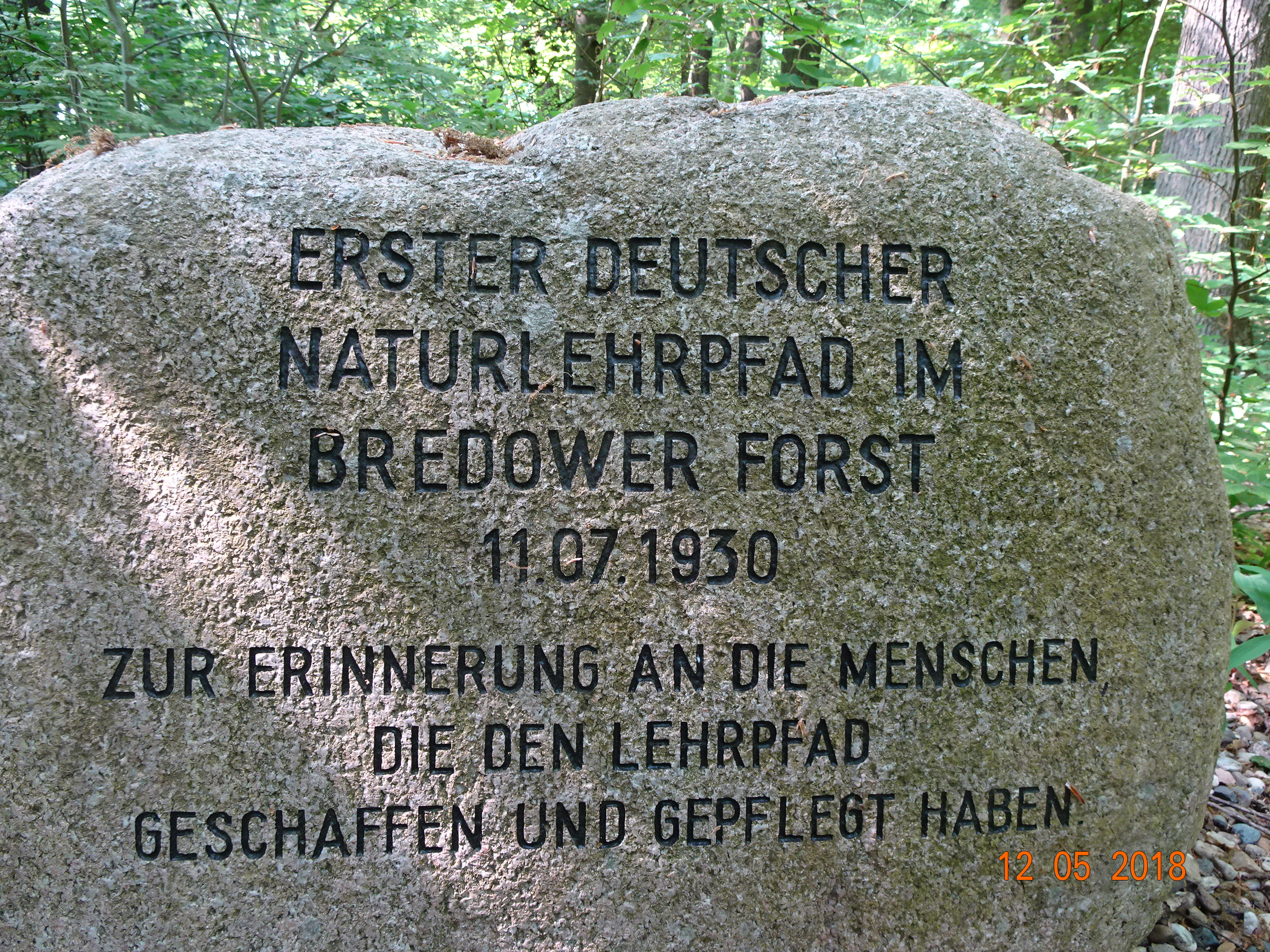 first educational trail in germany